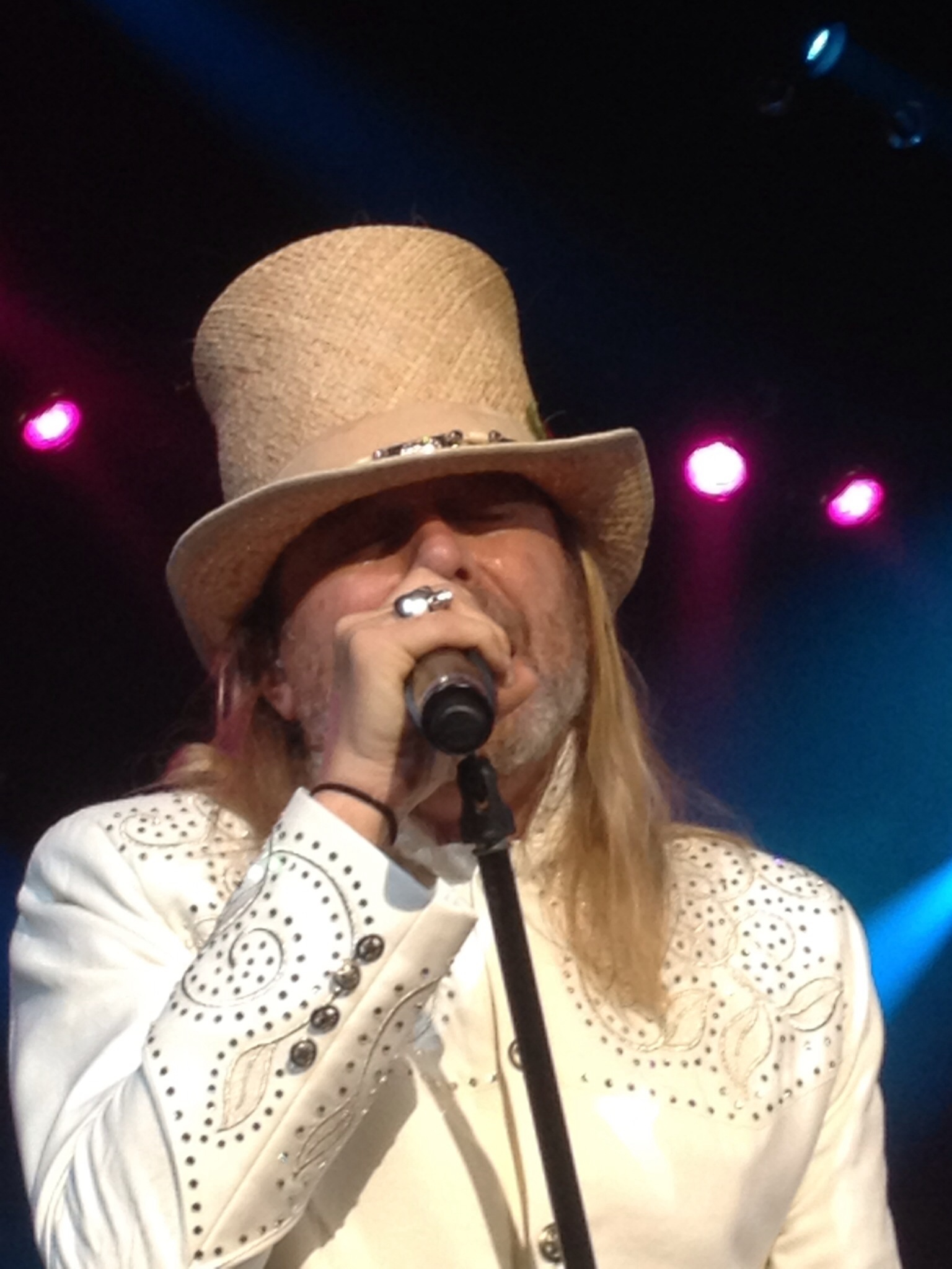 Robin Zander performing live at Ruth Eckerd Hall, Clearwater, FL on January, 31, 2014.